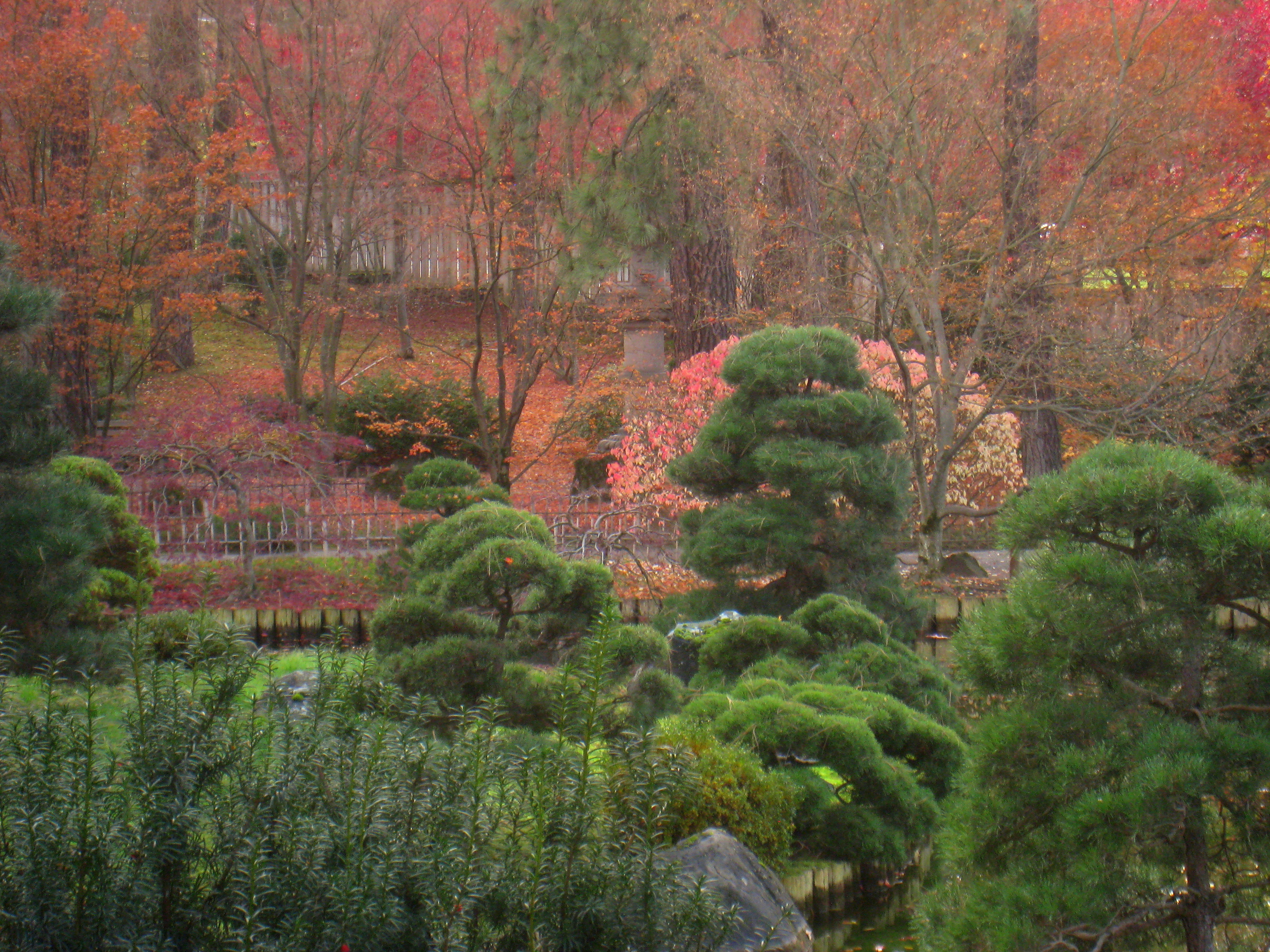 Nishinomiya Japanese Garden, Manito Park, Spokane, Washington, USA.